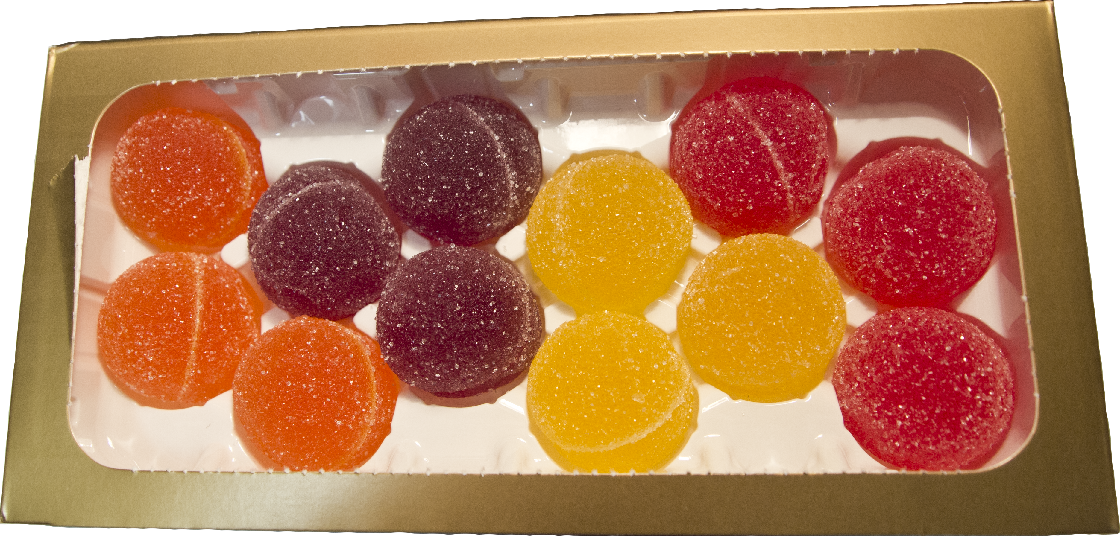 Finlandia marmelade jellies from Fazer.